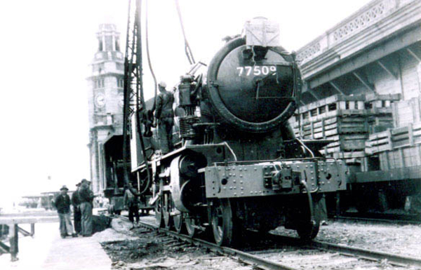 An ex-British Army steam locomotive delivered to Hong Kong at 1947 for KCR British Section.